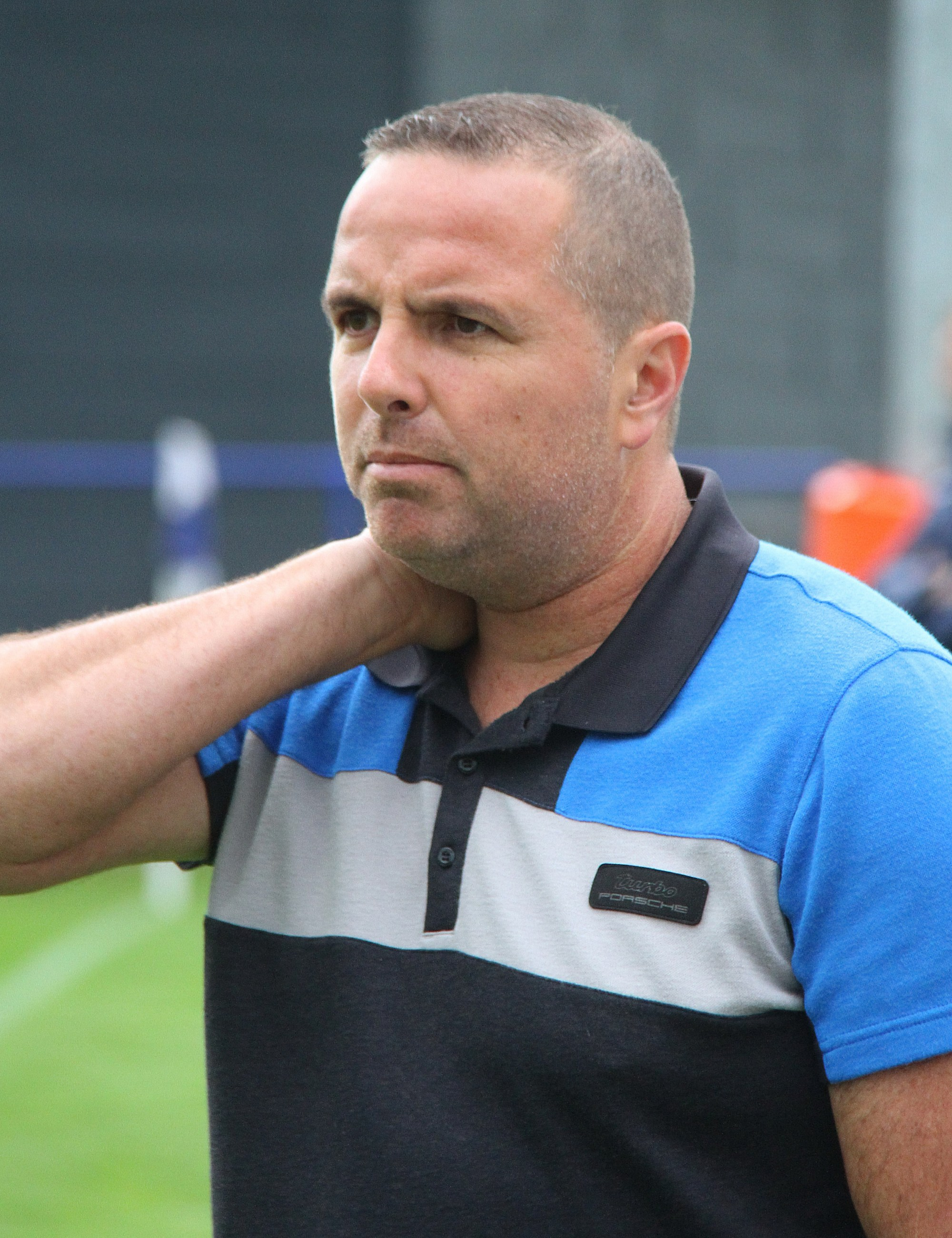 Friendly match between Beitar Jerusalem F.C. (yellow shirts) and MTK Budapest FC (blue shirts) at 2016-06-18 in Bad Erlach (Austria. – The photo shows Ran Ben-Shimon, head-coach of Beitar Jerusalem F.C.